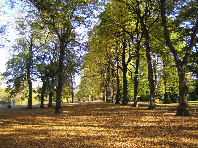 Barking Park The Lake is to the left.